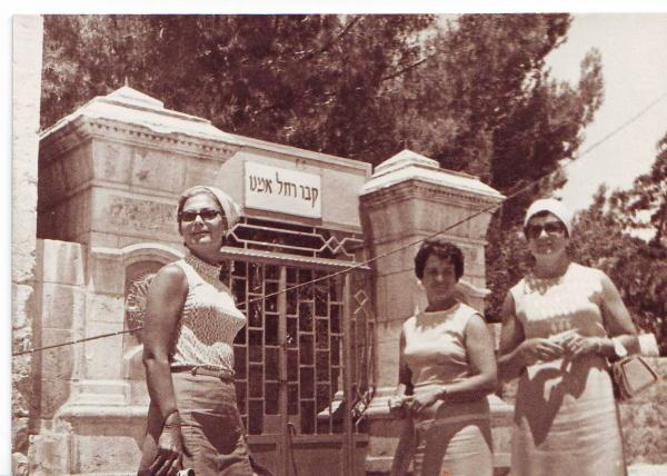 The entrance to Rachel's Tomb in July 1967